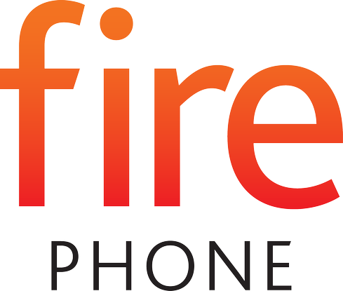 The logo of Amazon's Fire Phone.